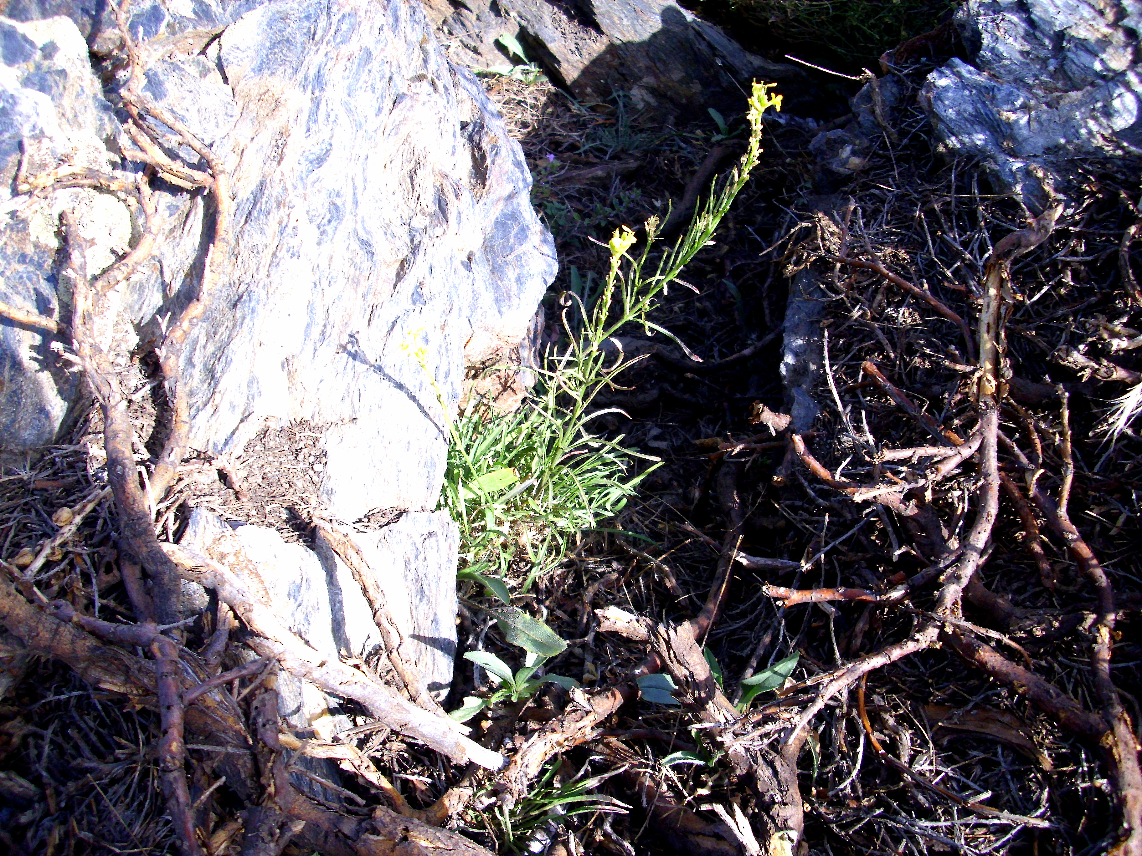 Erysimum nevadense habit, Sierra Nevada, Spain